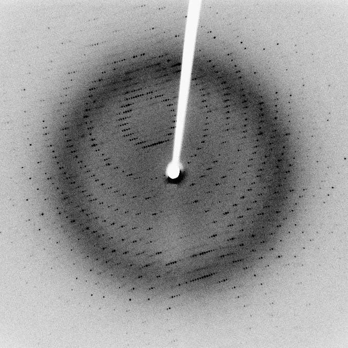 X-ray diffraction pattern of crystallized 3Clpro, a SARS protease. (2.1 Angstrom resolution).